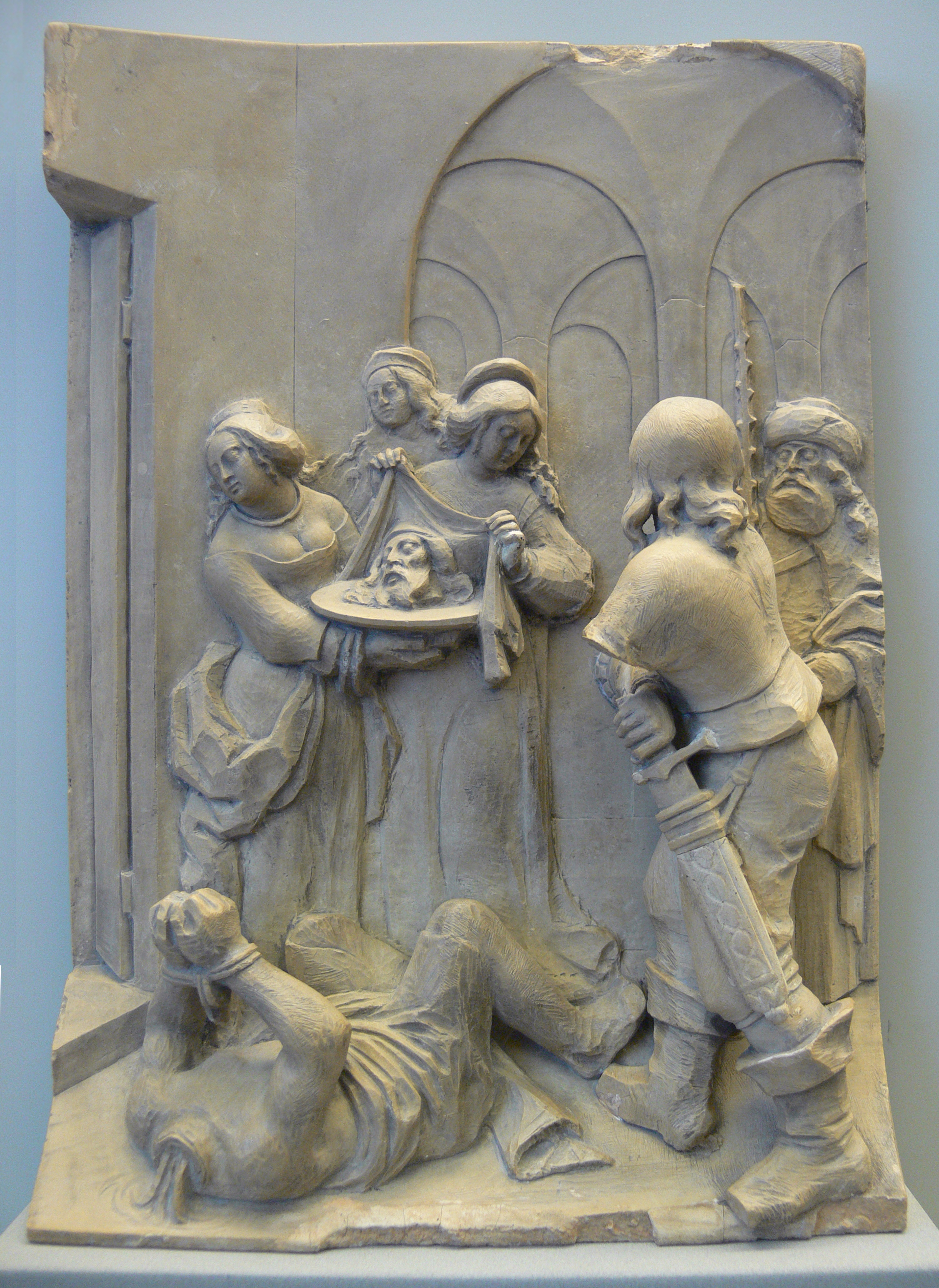 Georg Schweigger (workshop): Salome receives the head of St. John the Baptist in the dungeon, Nuremberg c. 1648 (?), Solnhofen limestone. Skulpturensammlung (inv. no. 834, acquired in 1835, Nagler collection), Bode-Museum Berlin.